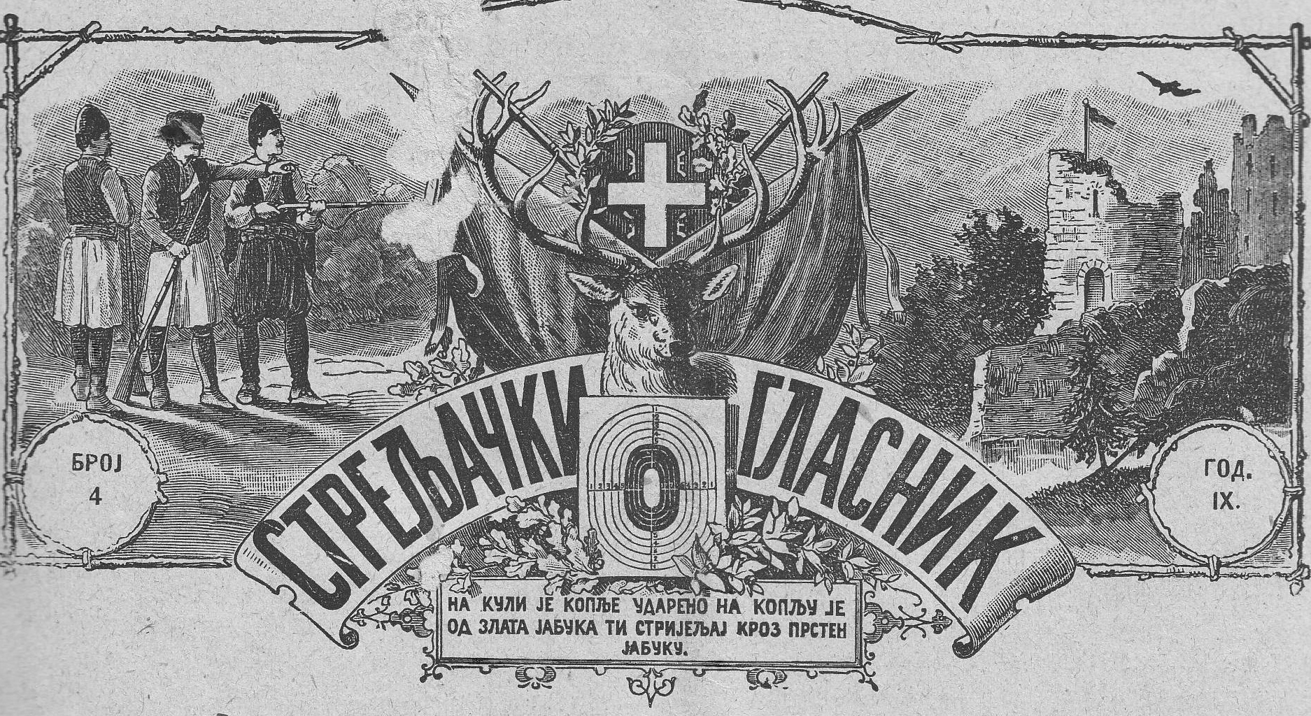 Logo of the magazine Streljački glasnik, newsletter of the Union of shooting societies of the Kingdom of Serbia. Srpski (latinica): Logo časopisa Streljački glasnik, glasila Saveza streljačkih družina Kraljevine Srbije